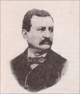 Stjepan Mitrov Ljubiša